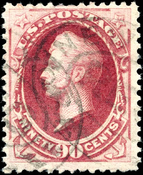 Detail of United States 90c stamp of 1879